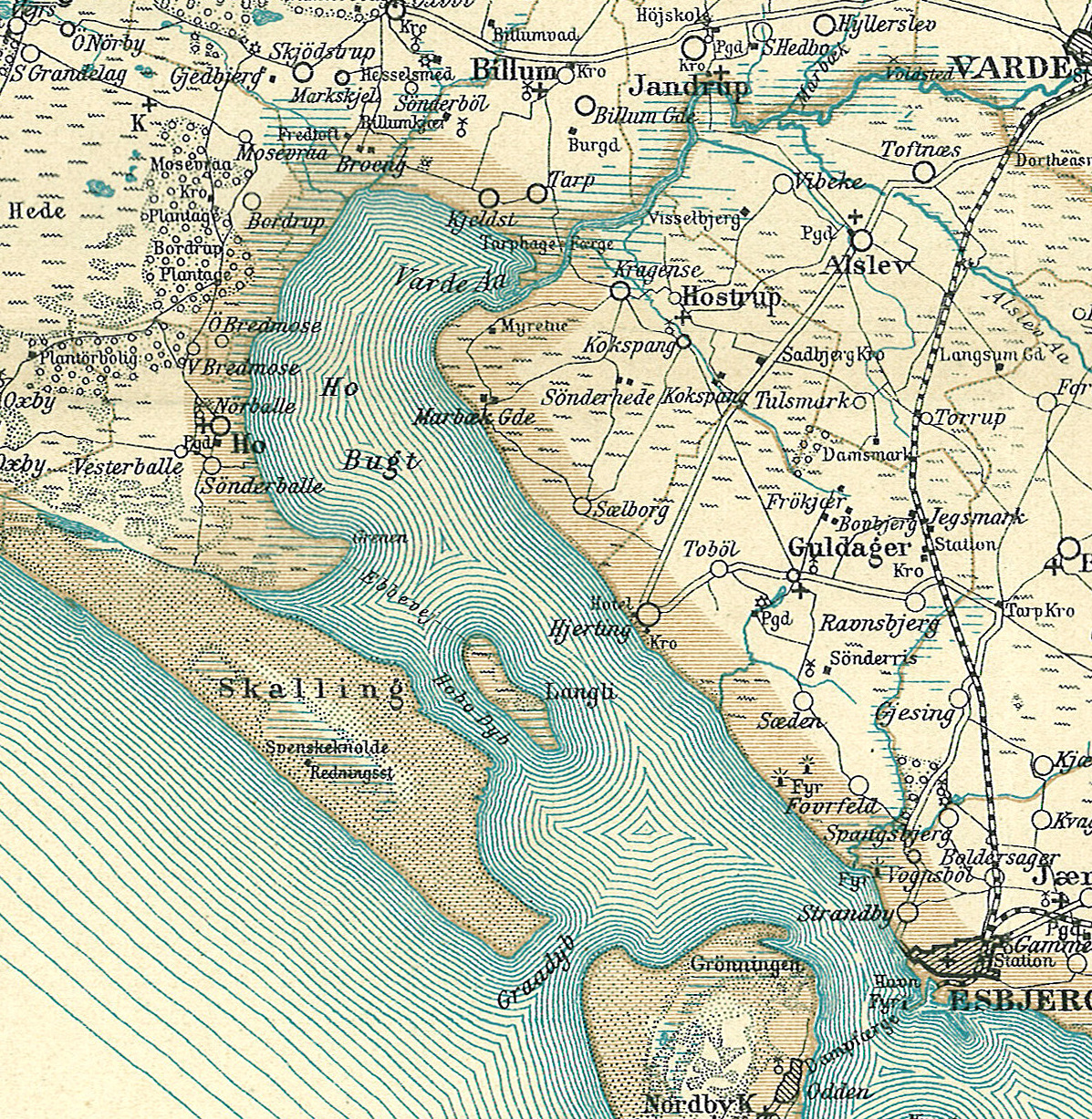 Map of Ho Bugt in Ribe County in Denmark